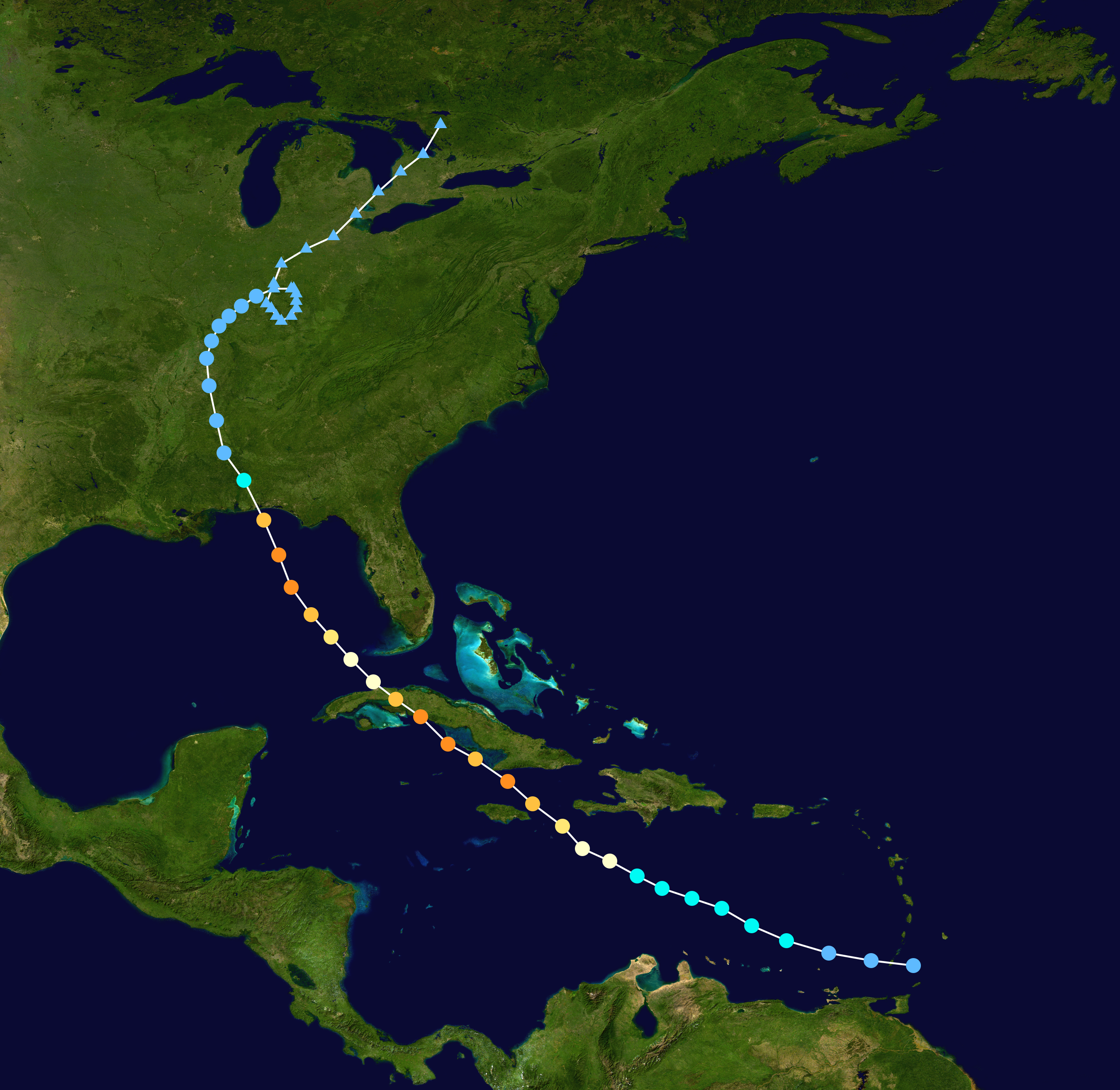 Track map of Hurricane Dennis of the 2005 Atlantic hurricane season. The points show the location of the storm at 6-hour intervals. The colour represents the storm's maximum sustained wind speeds as classified in the Saffir–Simpson scale (see below), and the shape of the data points represent the nature of the storm, according to the legend below. Saffir–Simpson scale Tropical depression≤38 mph≤62 km/h Category 3111–129 mph178–208 km/h Tropical storm39–73 mph63–118 km/h Category 4130–156 mph209–251 km/h Category 174–95 mph119–153 km/h Category 5≥157 mph≥252 km/h Category 296–110 mph154–177 km/h Unknown Storm type Tropical cyclone Subtropical cyclone Extratropical cyclone / Remnant low / Tropical disturbance / Monsoon depression